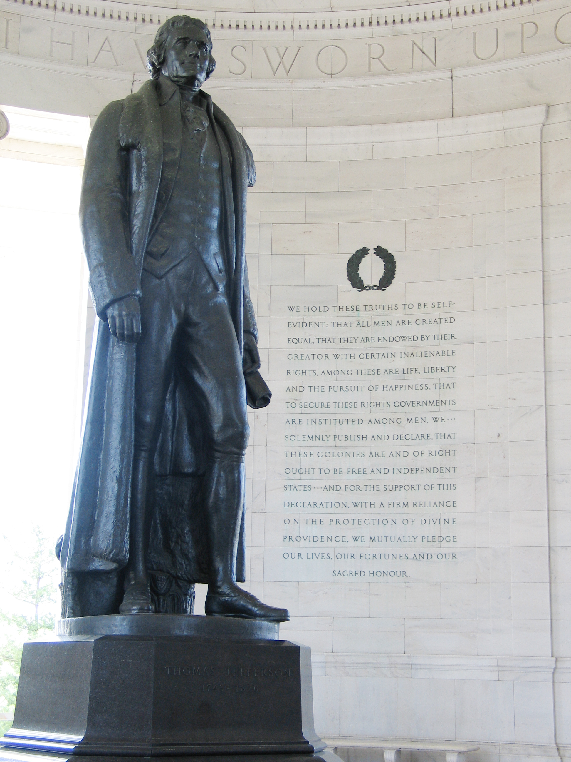 Jefferson Memorial in Washington D.C. with excerpts from the Declaration of Independence in background